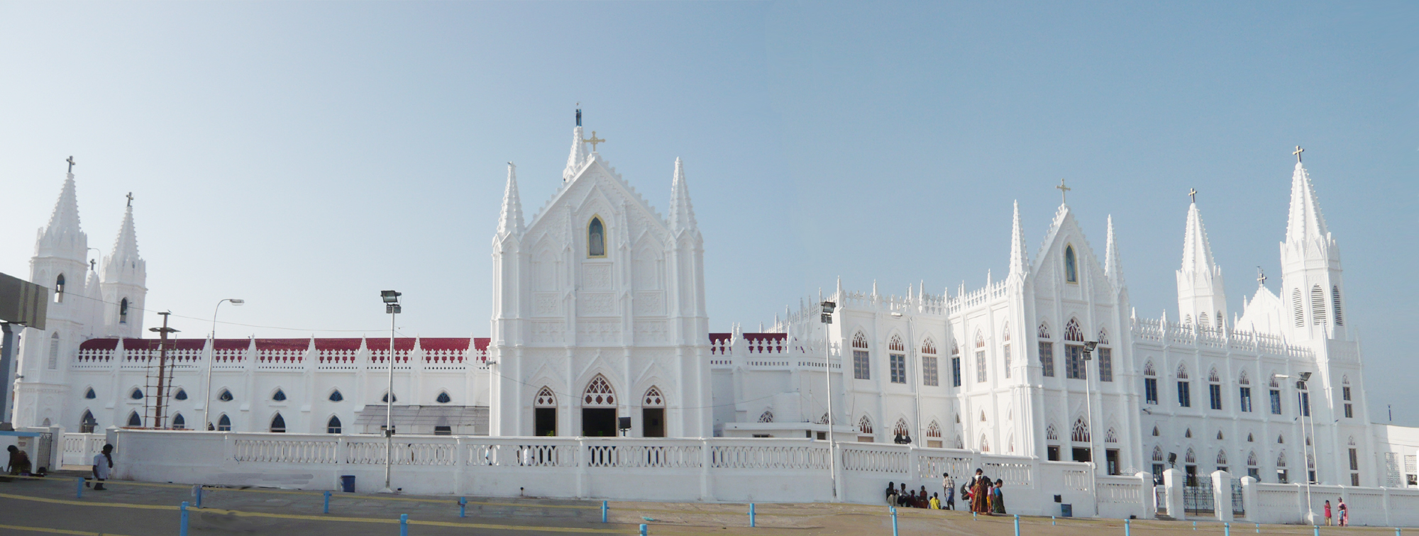 Velankanni Church - Basillica side view - Panoramic - I have done some work using Photoshop software to merge two different images owned by me